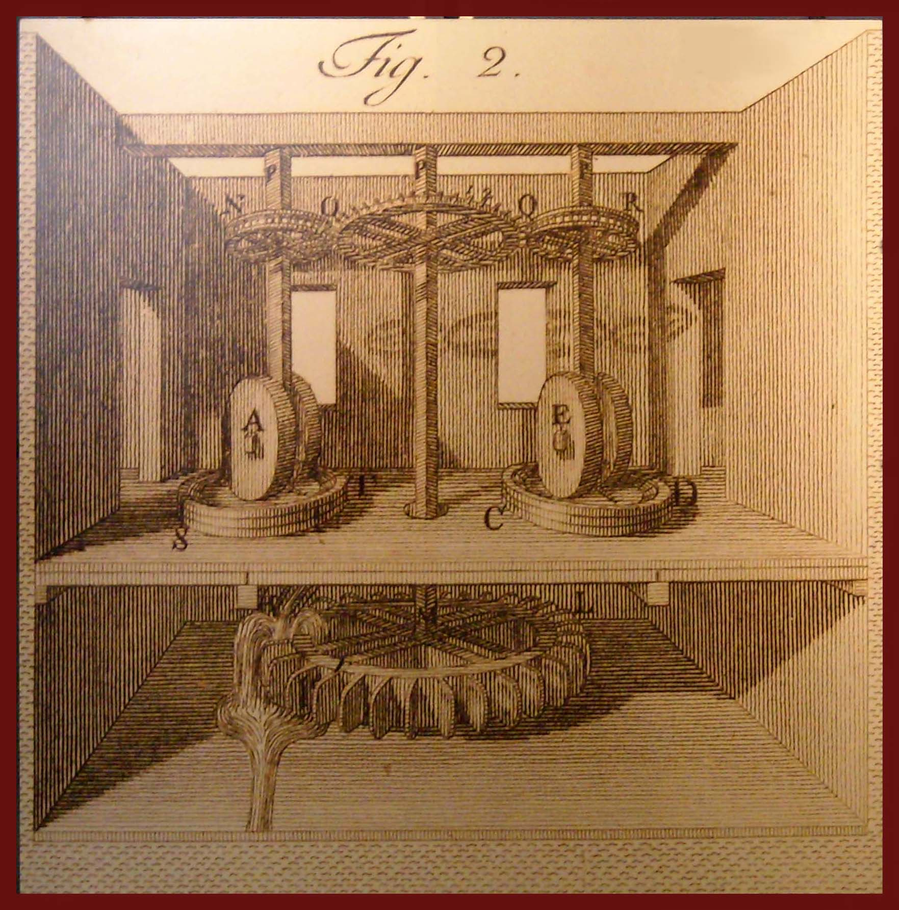 Traditional oil mill drawn by Bartolomeo Gandolfi from Porto Maurizio (Imperia) and printed in Rome in 1793, Italy.